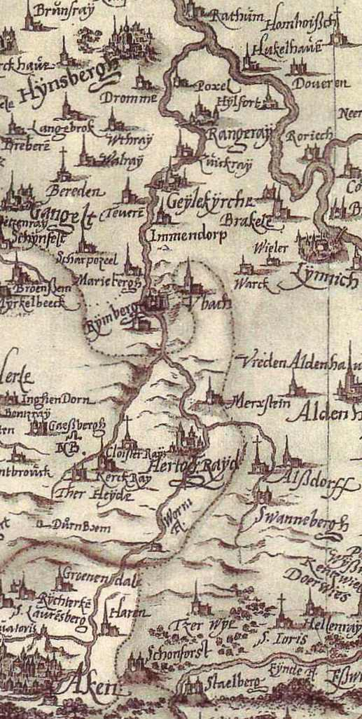 Detail from an Atlas (Kalkar, 1573) of the german cartographer Christian Sgrothen (1525-1604). This part of the map shows the river Wurm